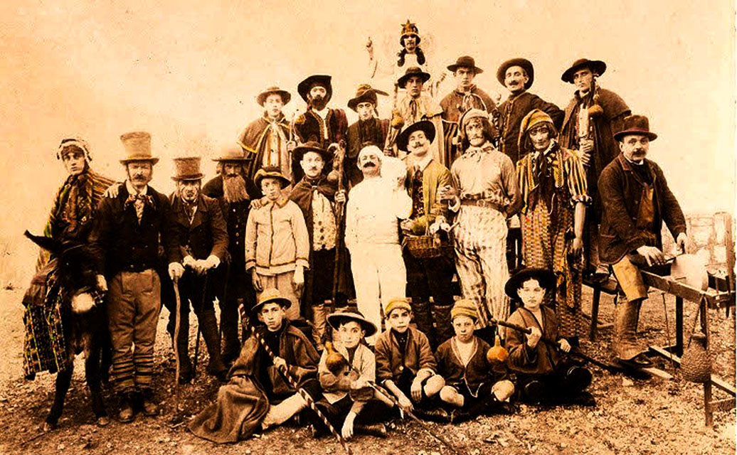 Actors of the Pastorale Maurel XIXe